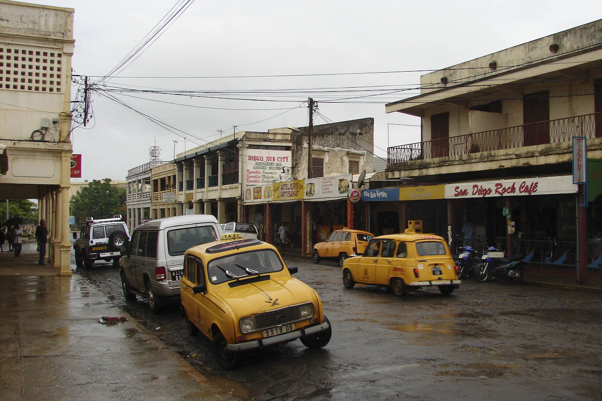 Street in Antsiranana, a city in the north of Madagascar.